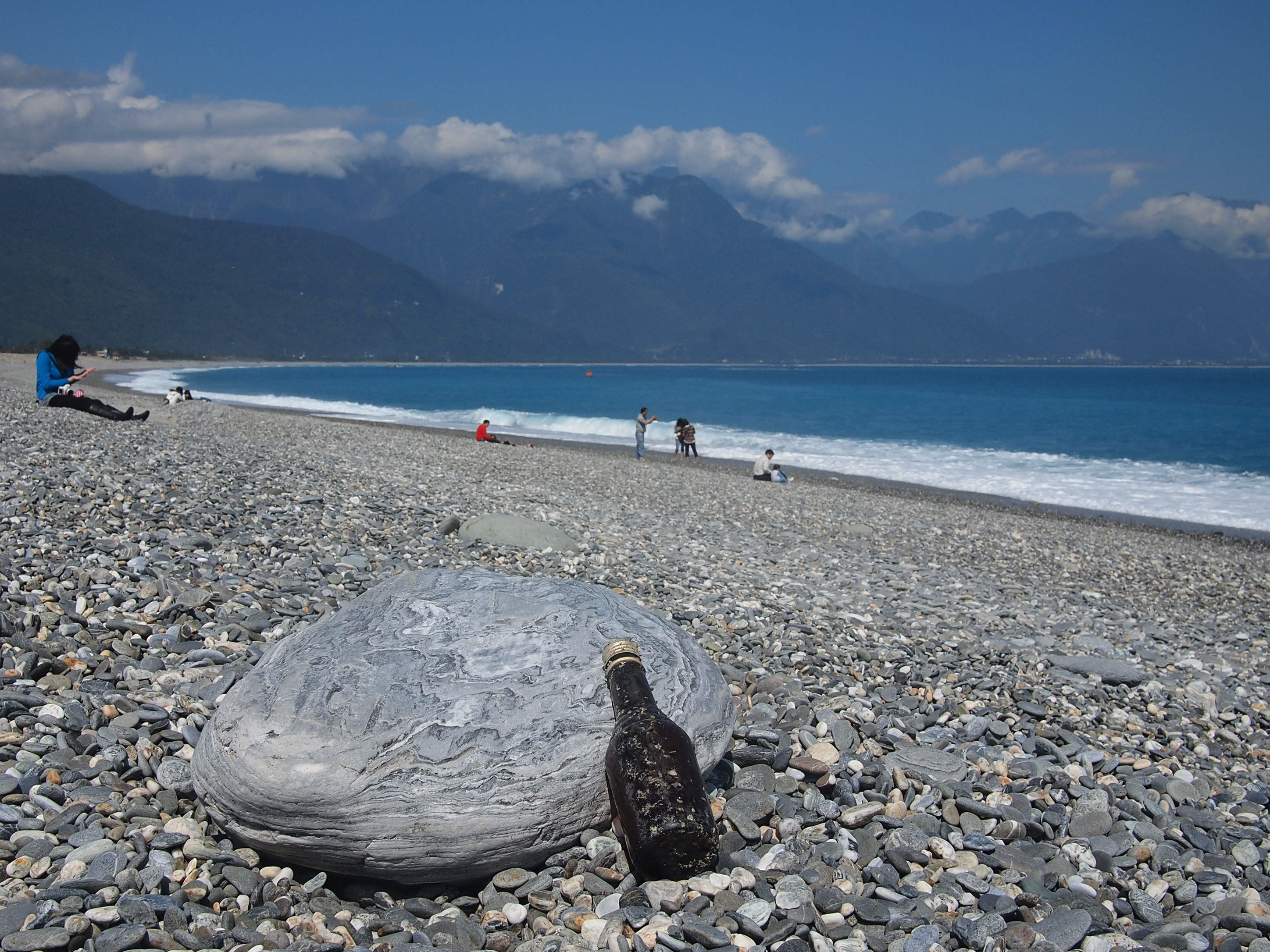 七星潭的卵石 - Pebbles on Qixingtan Beach - 2012.02